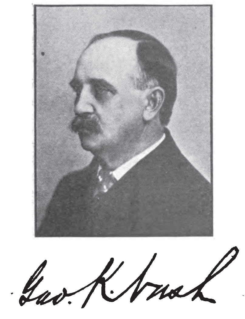 A governor of Ohio named George K. Nash